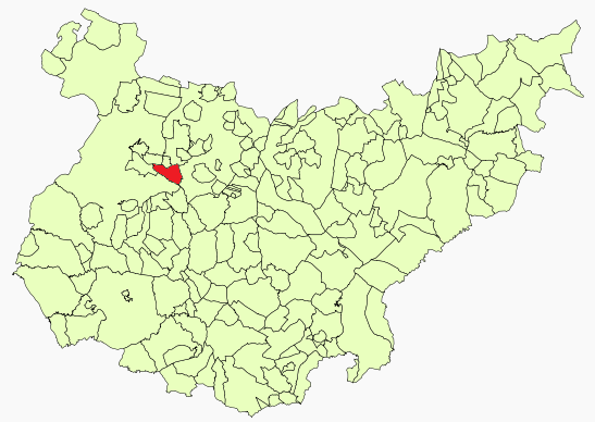 Lobón